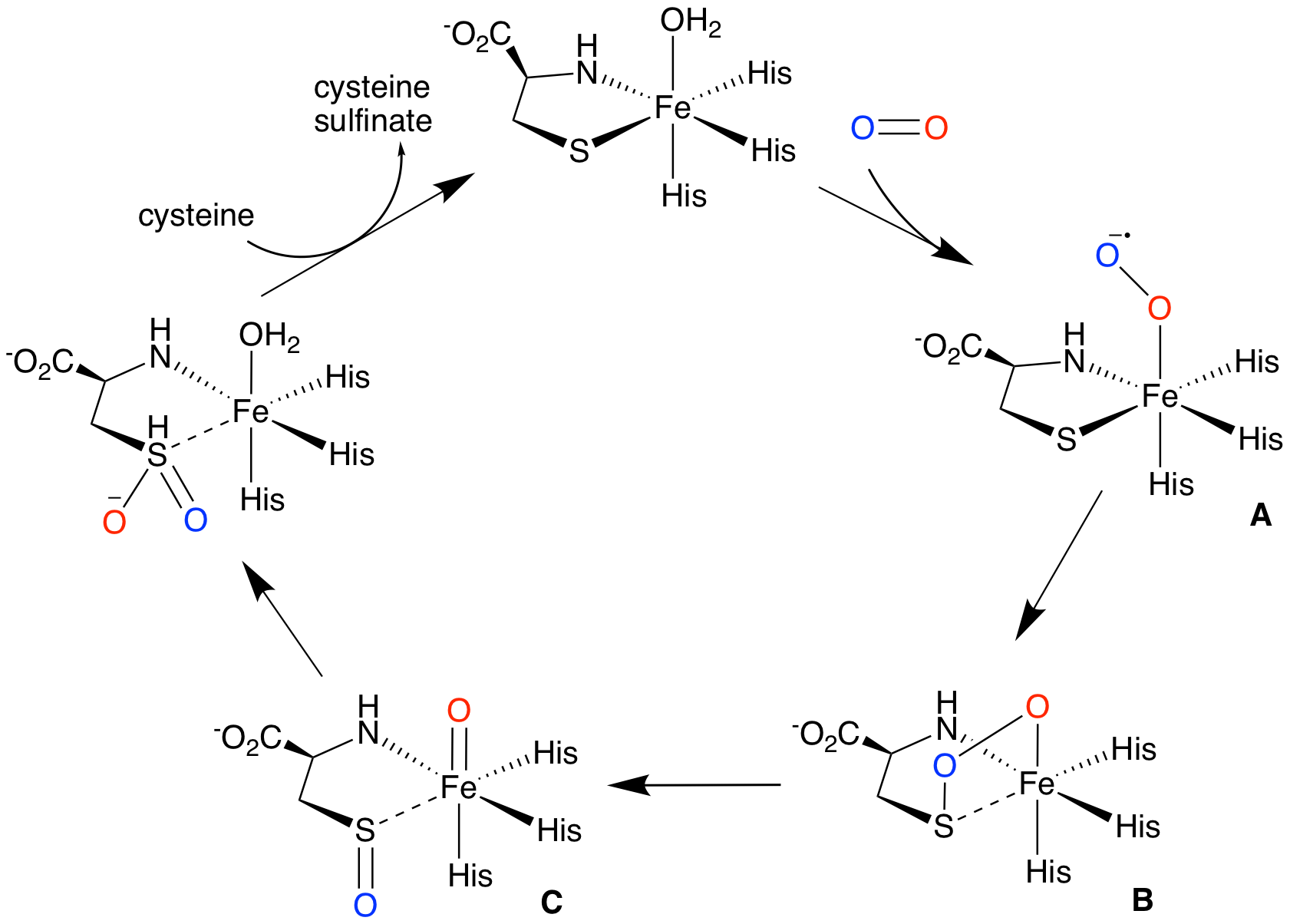 Proposed mechanism for cysteine dioxygenase. Produced in ChemDraw